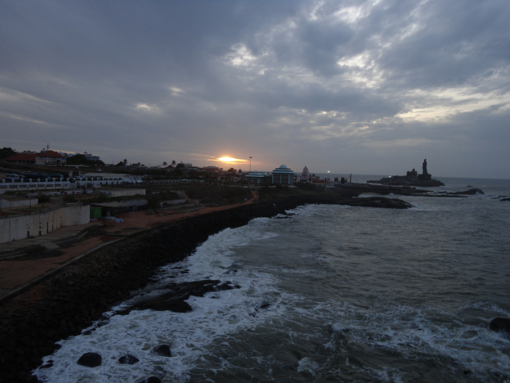 Sunrise in Kanyakumari along with the Vivekananda rock, India